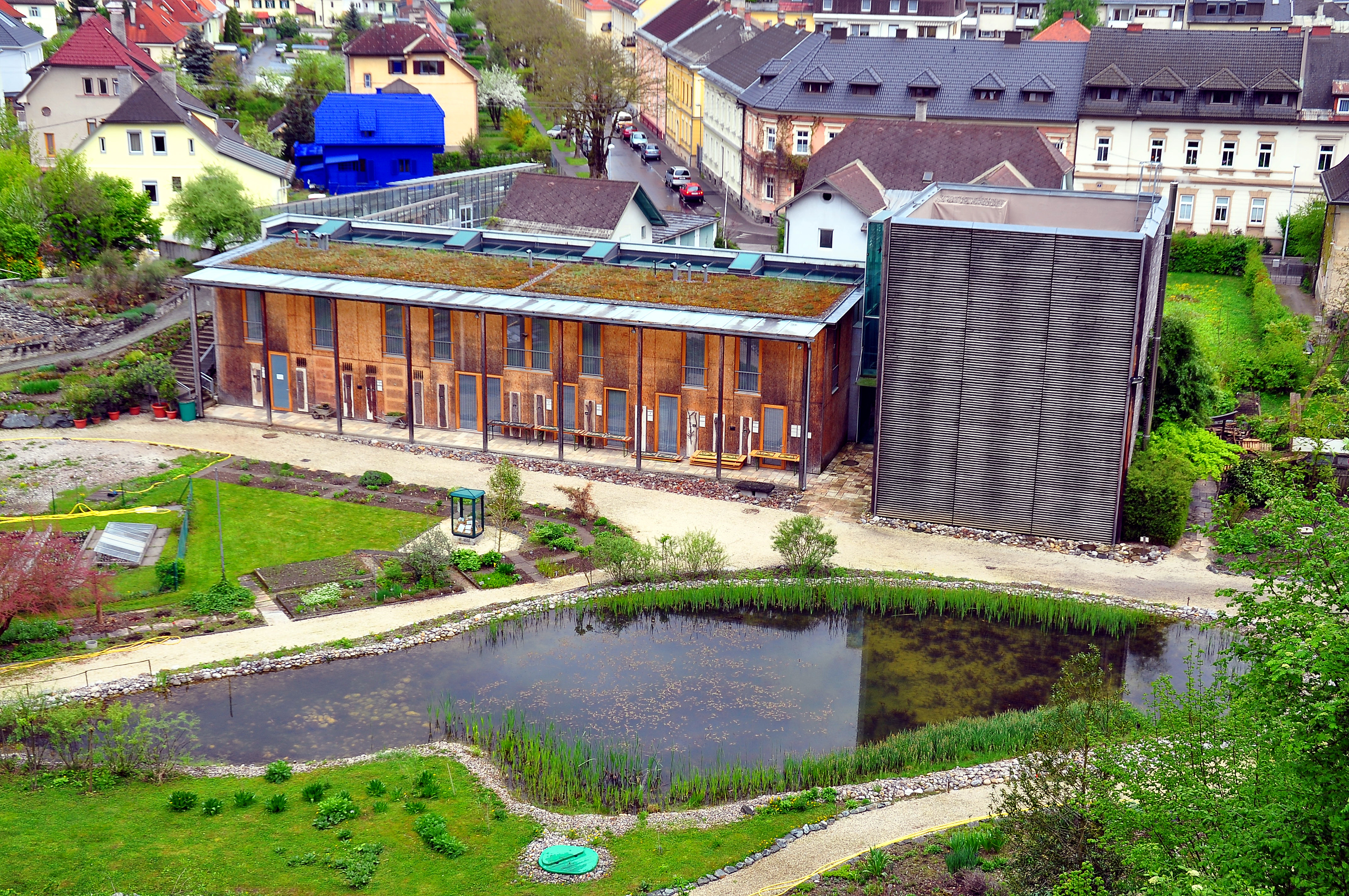 Botanical garden on Prof.-Dr.-Kahler-Platz #1, 8th district "Villacher Vorstadt", municipality Klagenfurt, Carinthia, Austria, EU